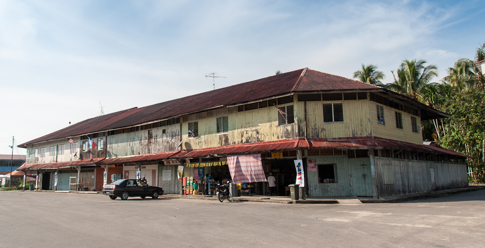 Old Shophouse in Weston (Sabah)